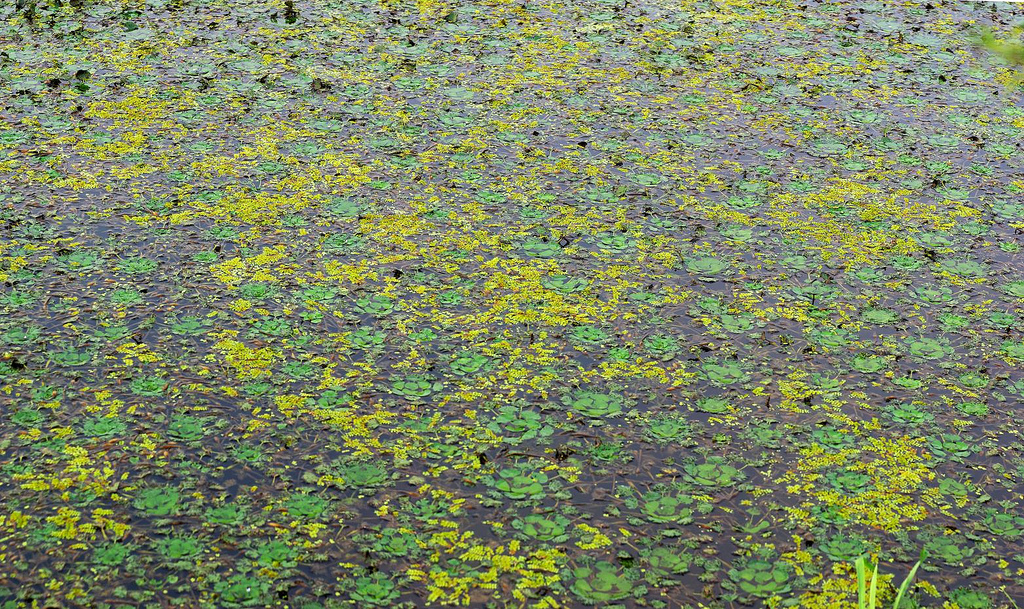 the waterweed at Upo swamp, South Gyeongsang Province, South Korea.